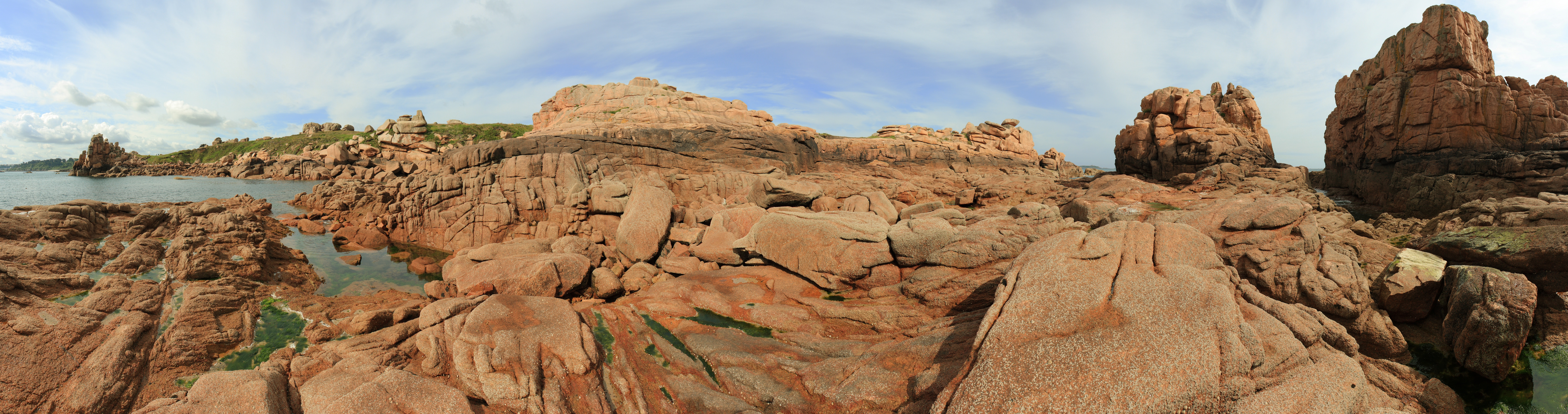 Pink granite rocks coast, nearby Ploumanac’h (Côtes-d’Armor, Brittany, west France). This picture was taken from a place accessible only at low tide.It is made of a mosaic of 12 pictures (2 rows of 6 snapshots) taken at 17mm on a 1.6 crop body, f/8.0, 1/250s and ISO 100. Stitching was done with Hugin and Enblend, using a cylindric projection. Resulting horizontal FOV is (taking the crop into account) slightly more than 300°.